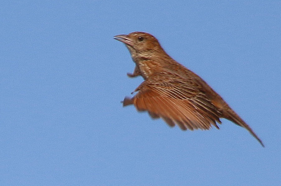 Eastern clapper lark (Mirafra fasciolata), Tswalu Kalahari Reserve, South Africa